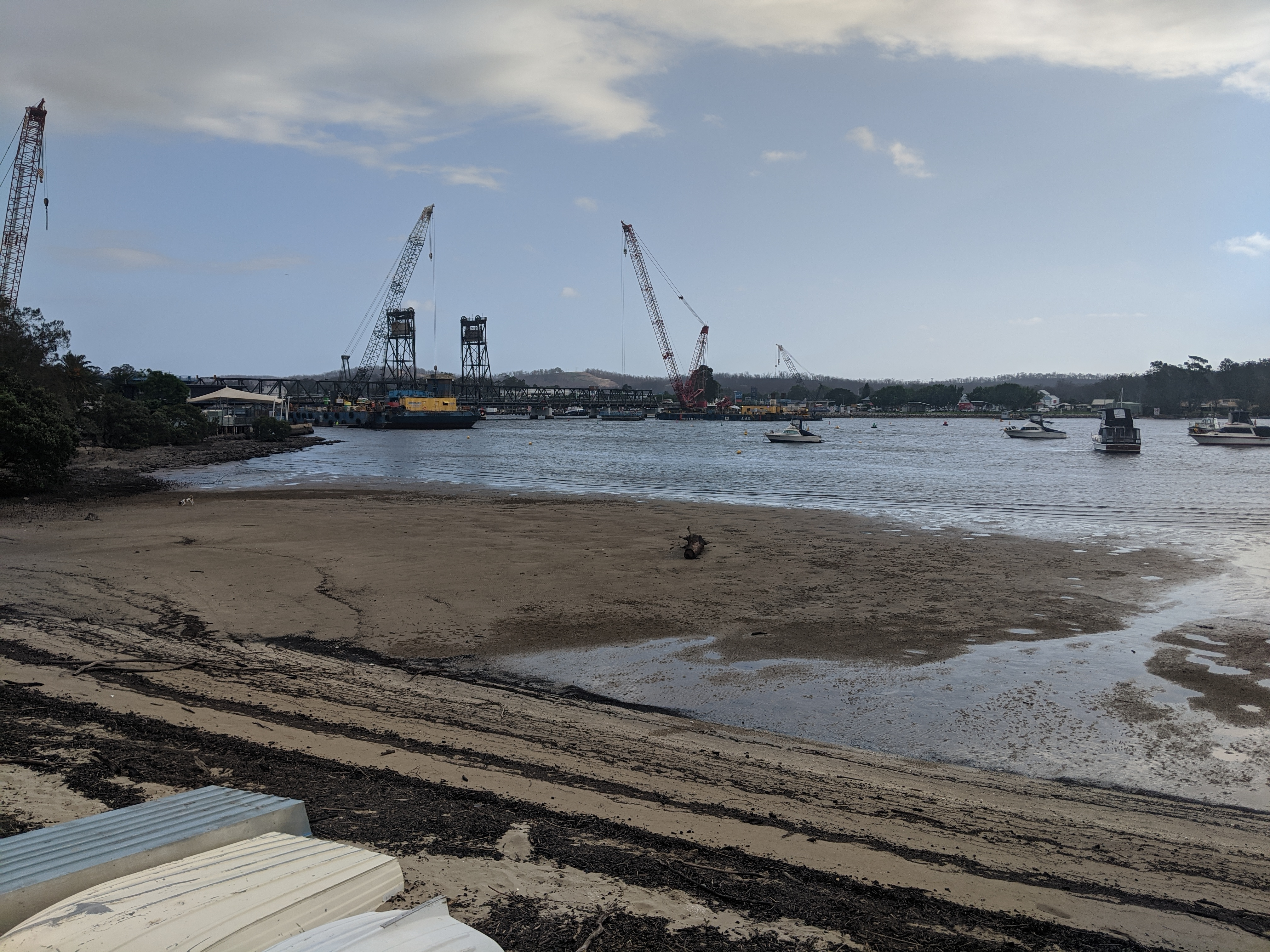 New Batemans Bay bridge, 2020